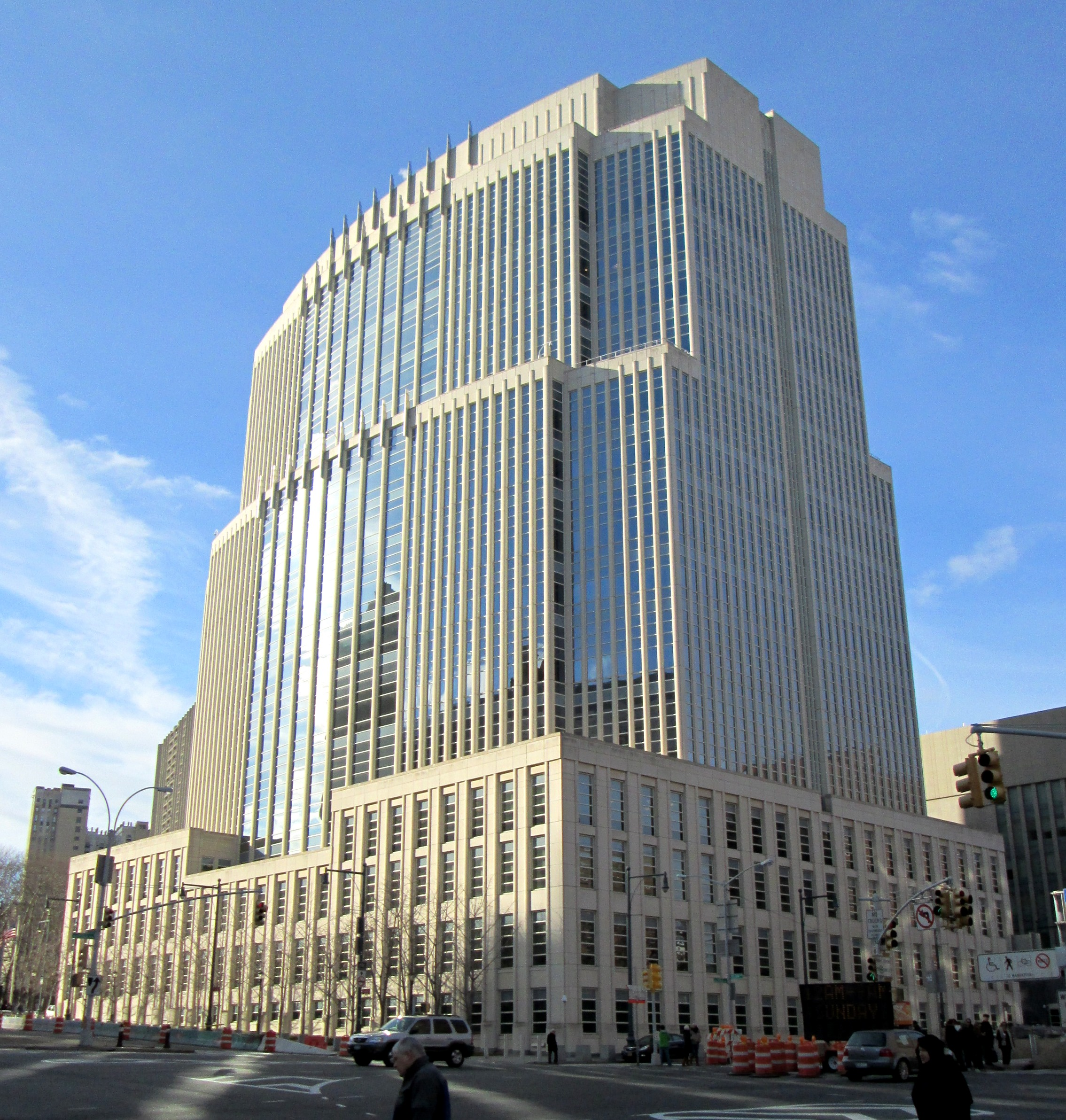 The Theodore Roosevelt Federal Courthouse at 225 Cadman Plaza East viewed from the intersection Brooklyn Bridge Boulevard and Tillary Street in the Civic Center area of Brooklyn, New York City was built in 2006 and was designed by Cesar Pelli & Associates and HLW International. (Source: AIA Guide to NYC (5th. ed.))